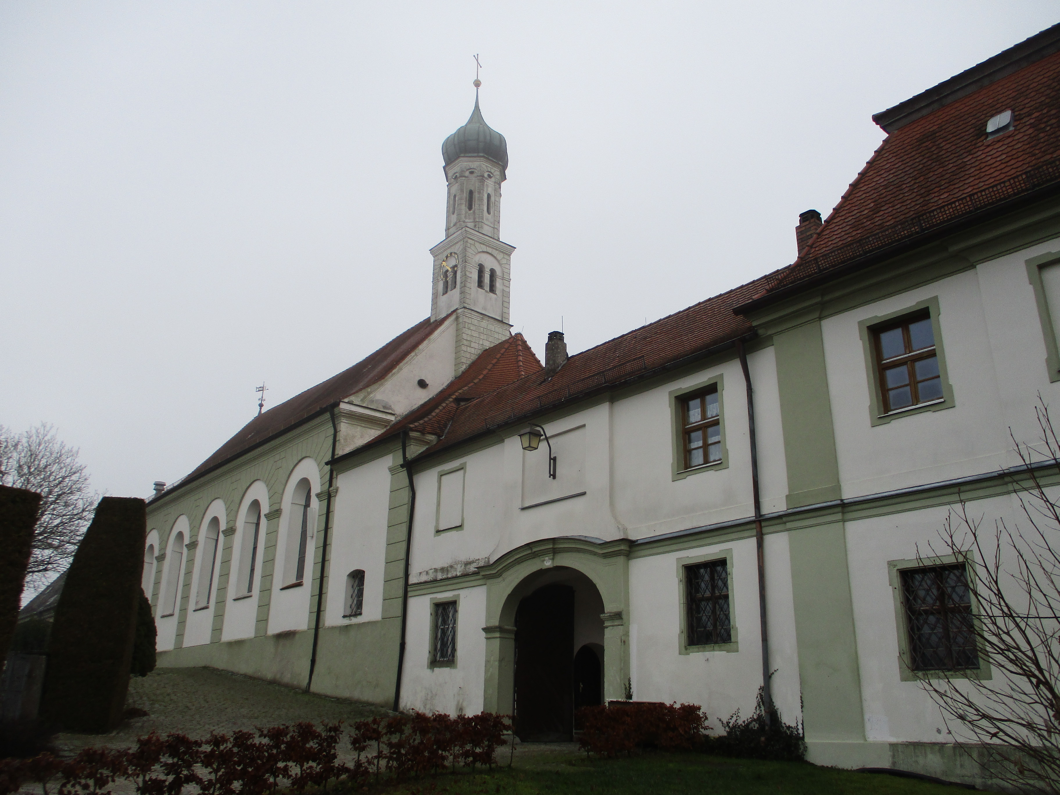 The church Heiligste Dreifaltigkeit at Bergstetten, Bavaria and the northern entrance to Gut Bergstetten.